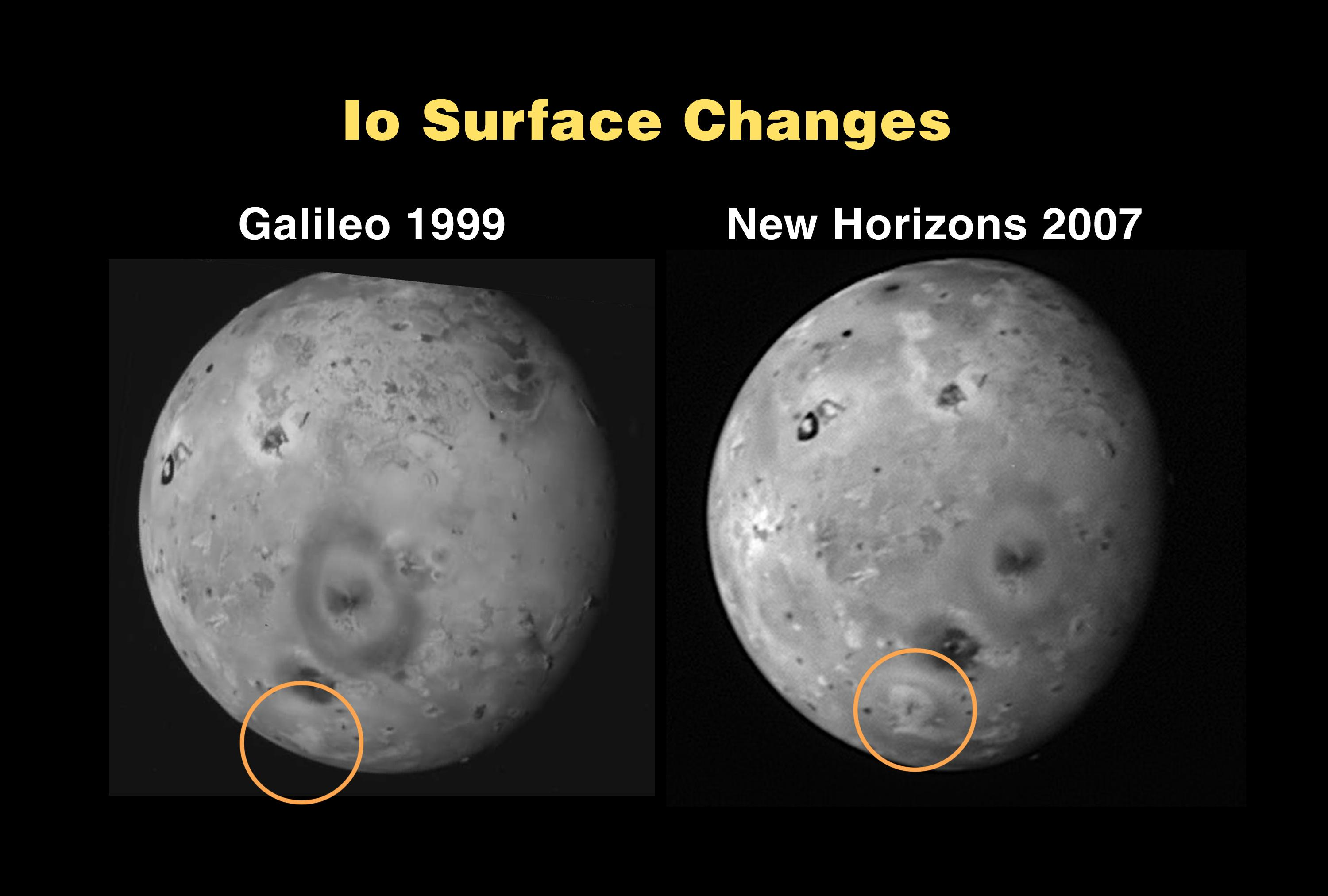 This montage compares similar sides of Io photographed by the Galileo spacecraft in October 1999 (left) and the New Horizons spacecraft on February 27, 2007. The New Horizons image was taken with its Long Range Reconnaissance Imager (LORRI) from a range of 2.7 million kilometers (1.7 million miles). Most features on Io have changed little in the seven-plus years between these images, despite continued intense volcanic activity. The largest visible feature is the dark oval composed of deposits from the Pele volcano, nearly 1,200 kilometers (750 miles) across its longest dimension. At high northern latitudes, the volcano Dazhbog is prominent as a dark spot in the New Horizons image, near the edge of the disk at the 11 o'clock position. This volcano is much less conspicuous in the Galileo image. This darkening happened after this 1999 Galileo image but before Galileo took its last images of Io in 2001. A more recent change, discovered by New Horizons, can be seen in the southern hemisphere (circled). A new volcanic eruption near 55 degrees south, 290 degrees west has created a roughly circular deposit nearly 500 kilometers (300 miles) in diameter that was not seen by Galileo. Other New Horizons images show that the plume that created this deposit is still active. The New Horizons image is centered at Io coordinates 8 degrees south, 269 degrees west.